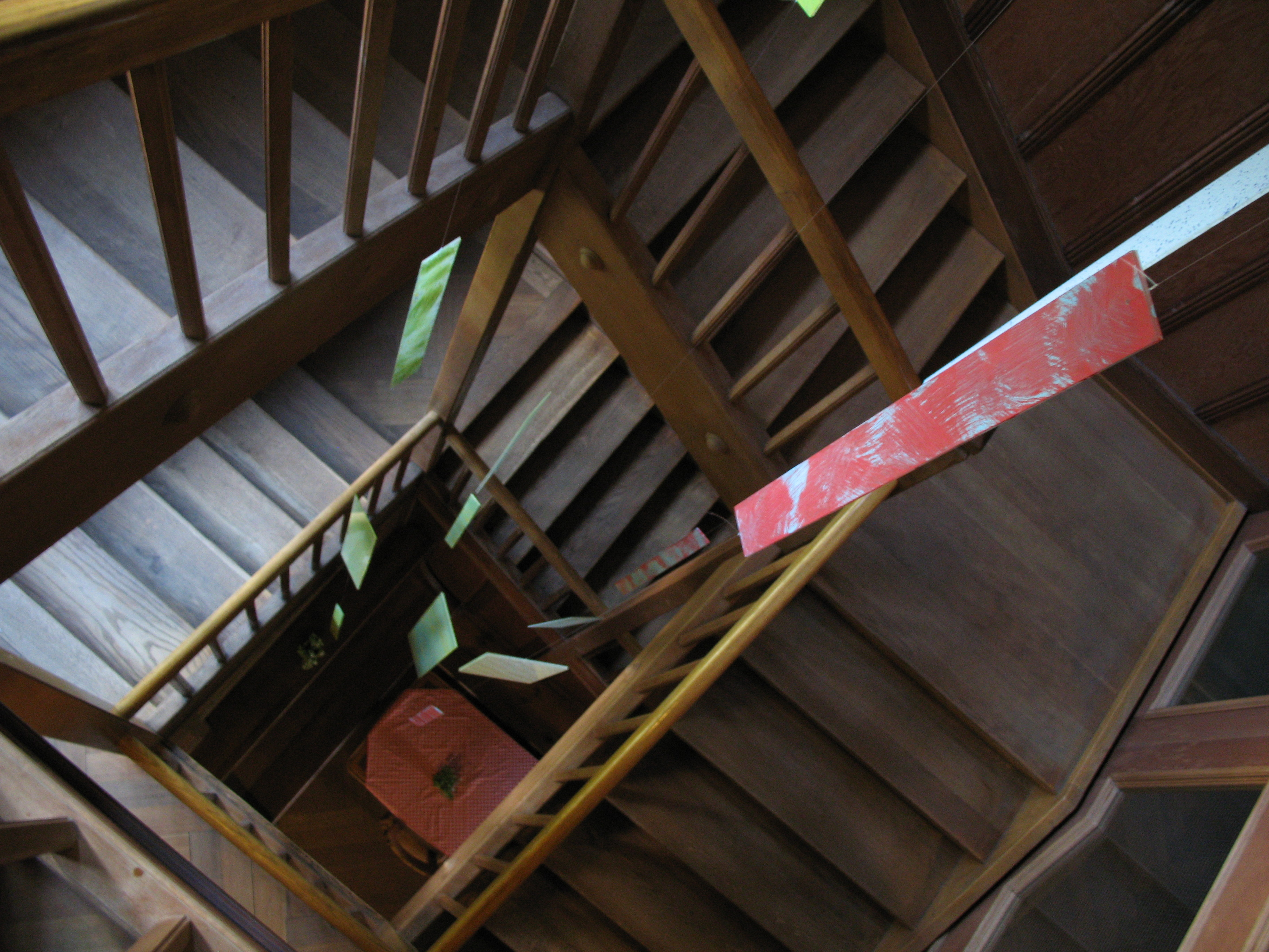 SYHA Hostel, Grindelwald, Switzerland